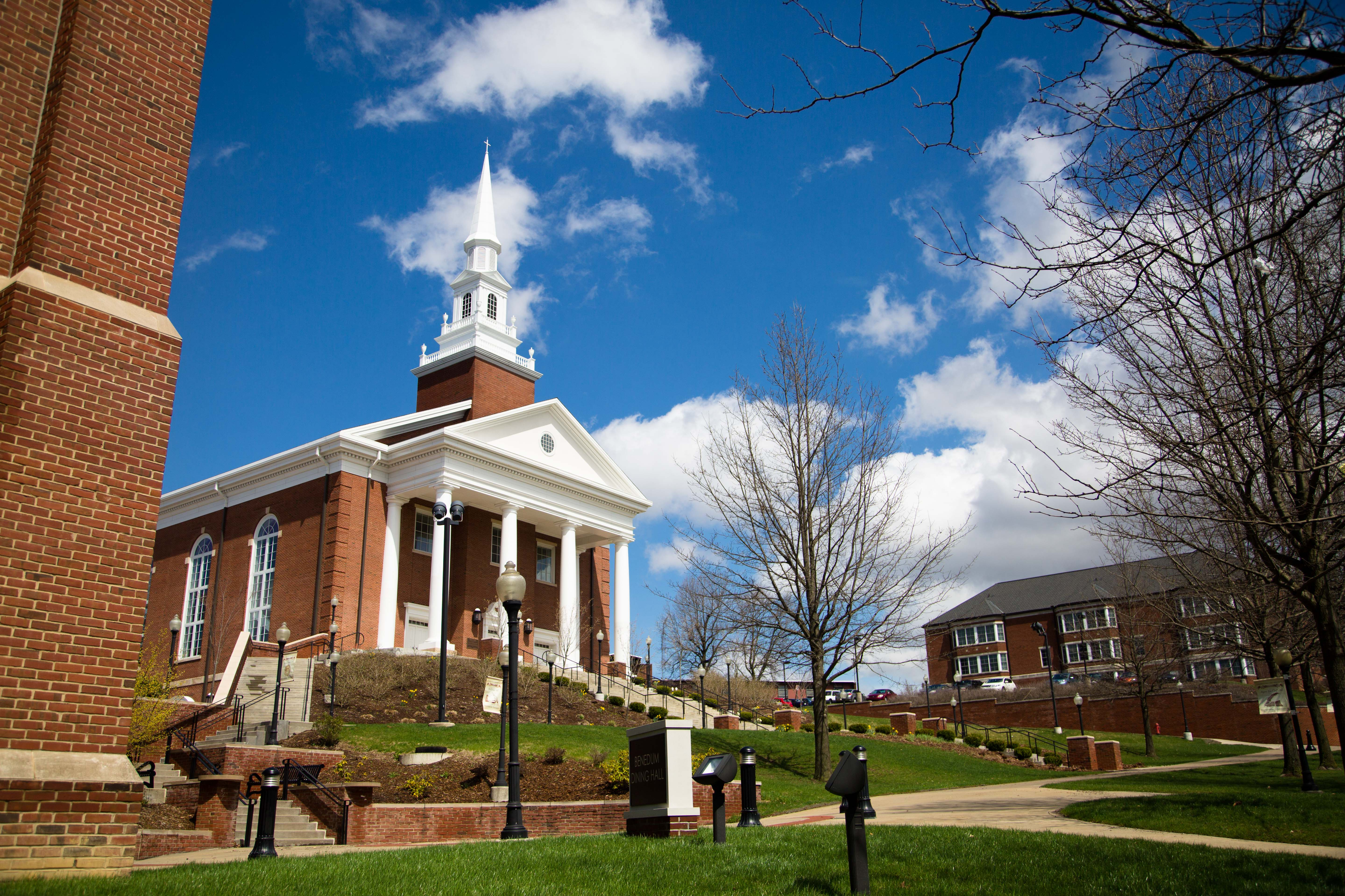 Campus shot of Roberts Chapel